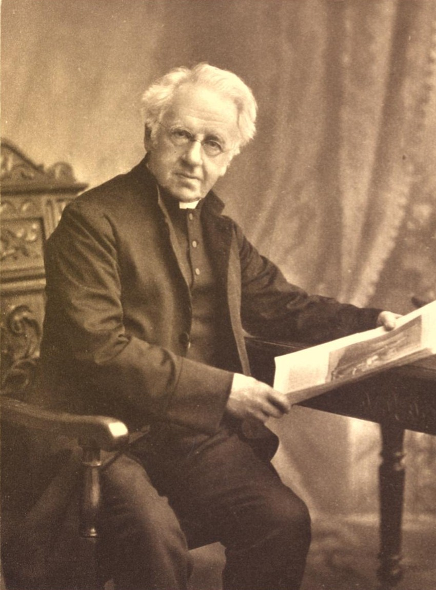 Portrait of George Rundle Prynne (1818–1903), English cleric.